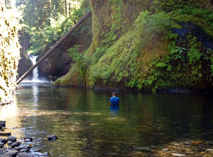 A pool below Punchbowl Falls on Eagle Creek in Multnomah County, Oregon, USA